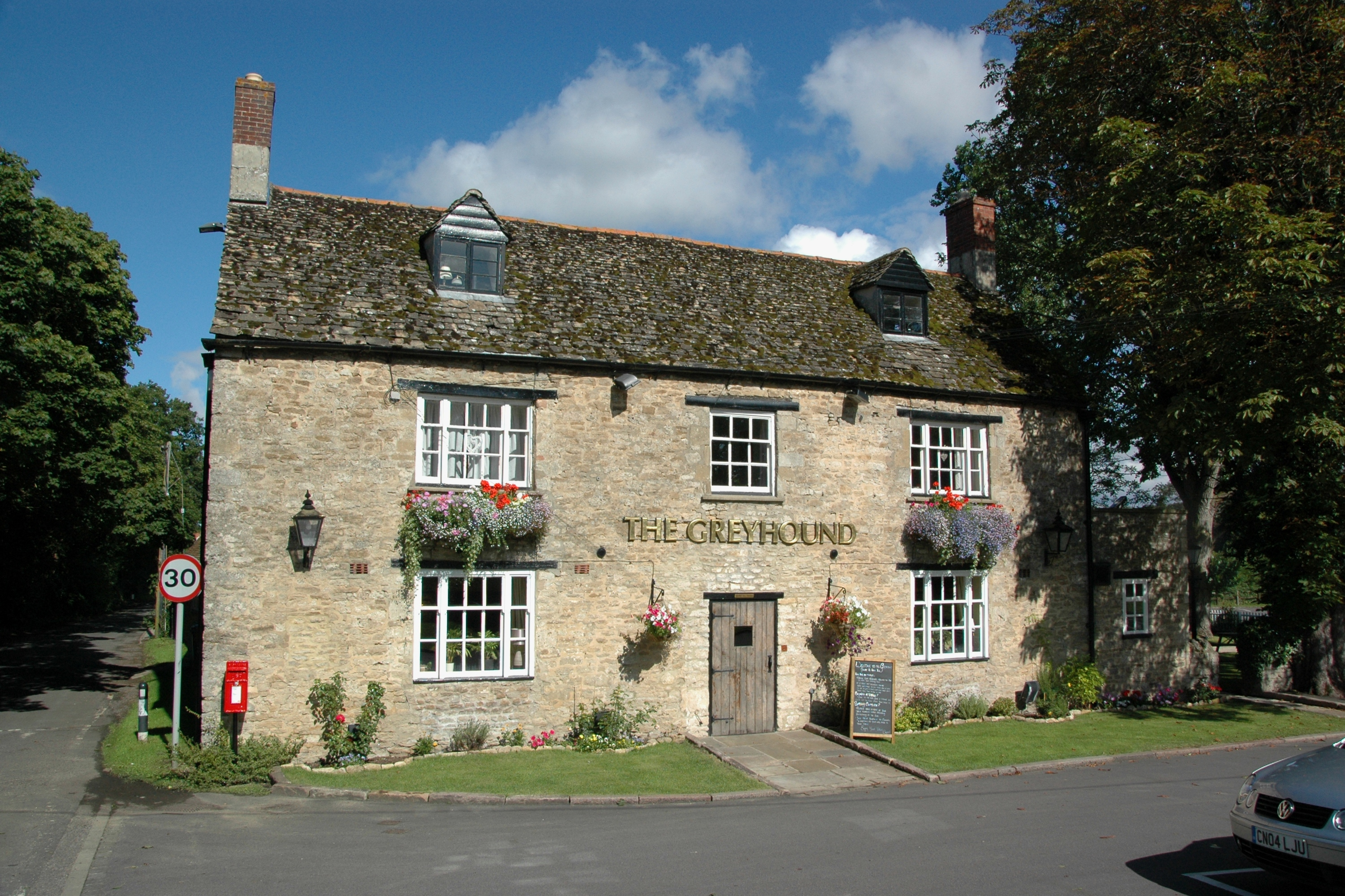 The Greyhound public house, Besselsleigh, Oxfordshire (formerly Berkshire)